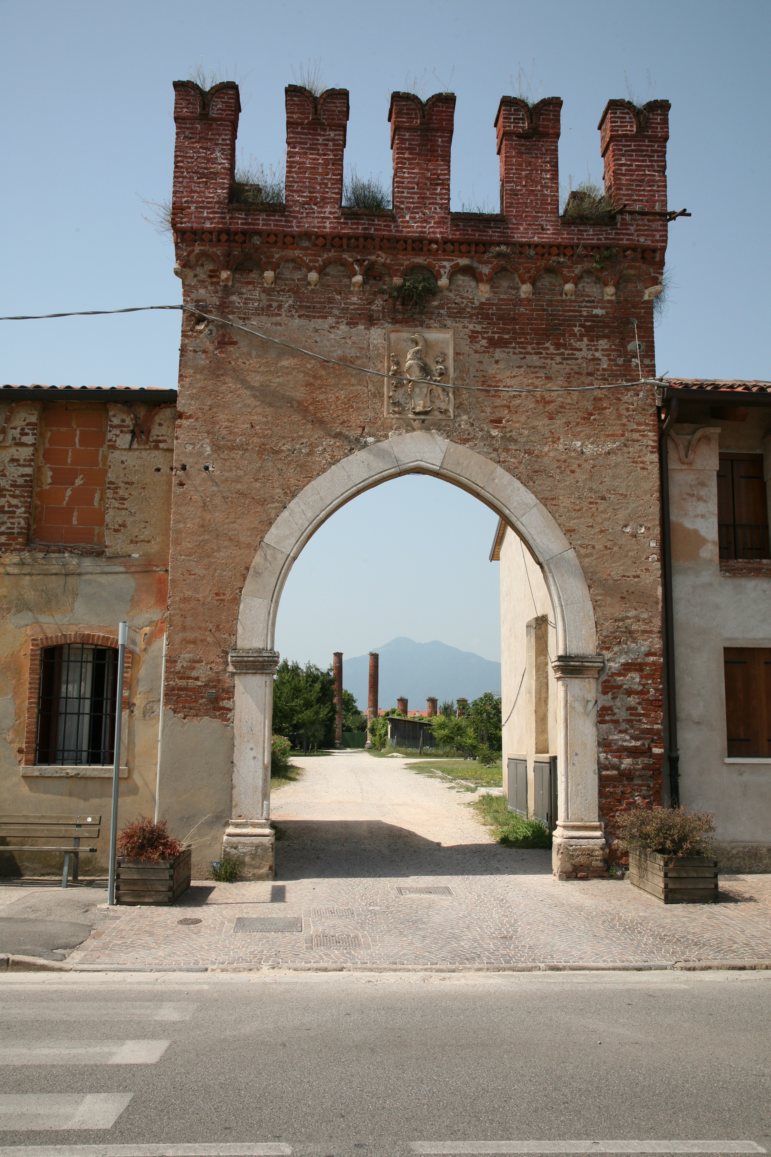 The entrance to the yard in Molina di Malo with the columns that are the only existing part of Villa Porto.